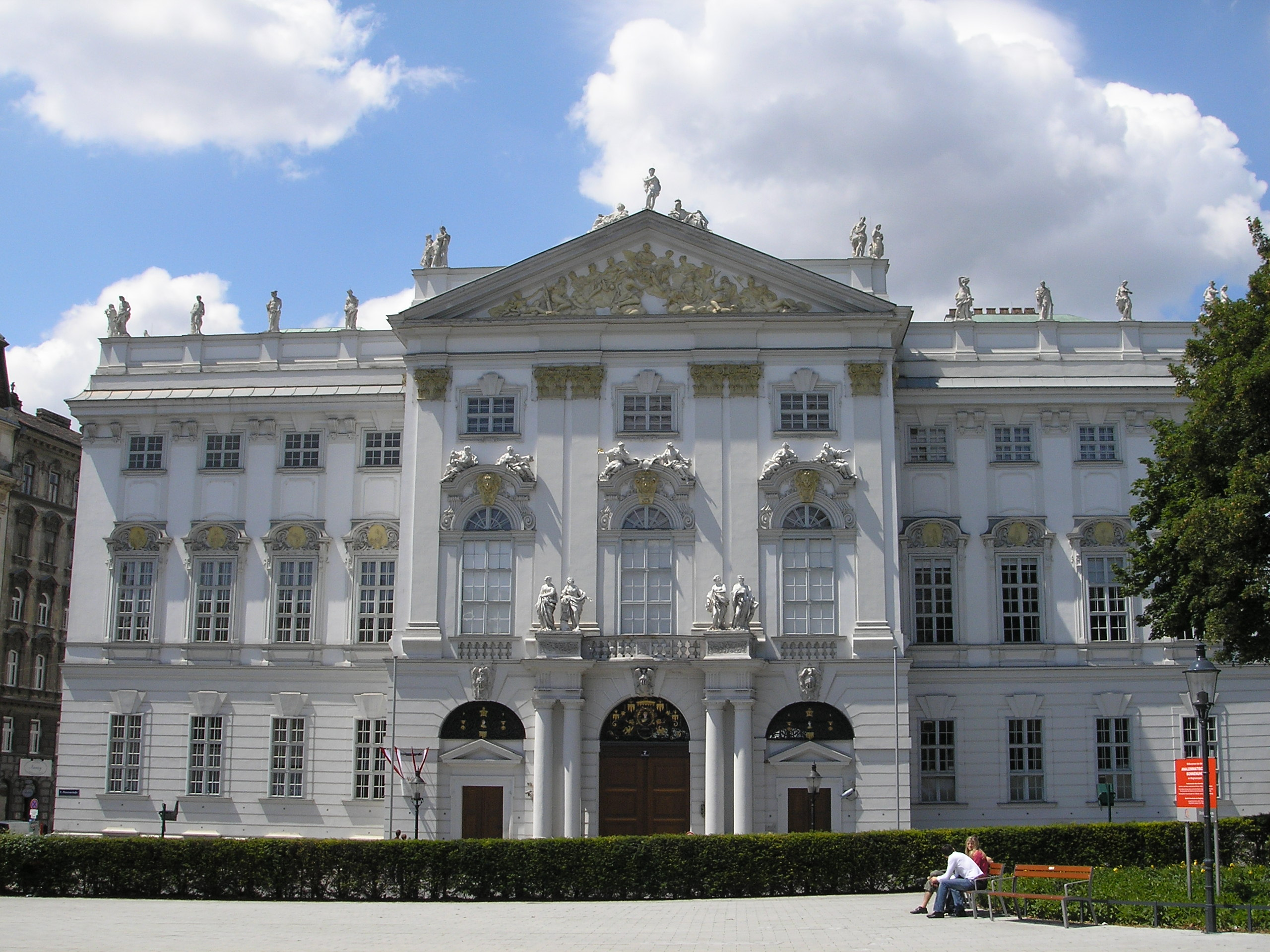 Palais Trautson in Vienna, constructed in the baroque era for the noble Trautson family.